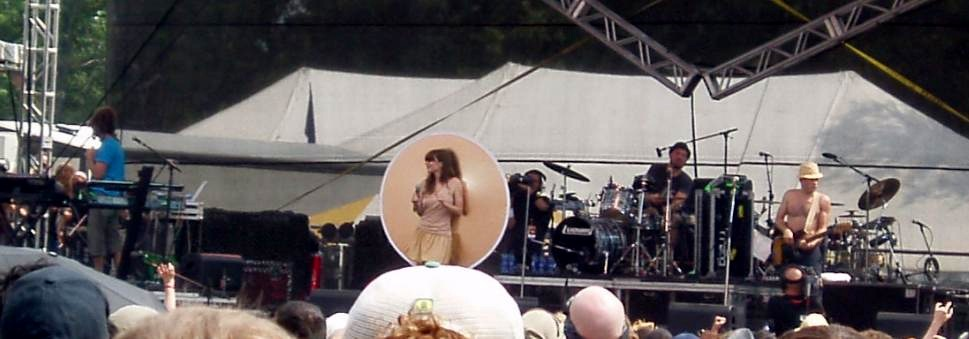 Brazilian Girls at Bonnaroo 2007